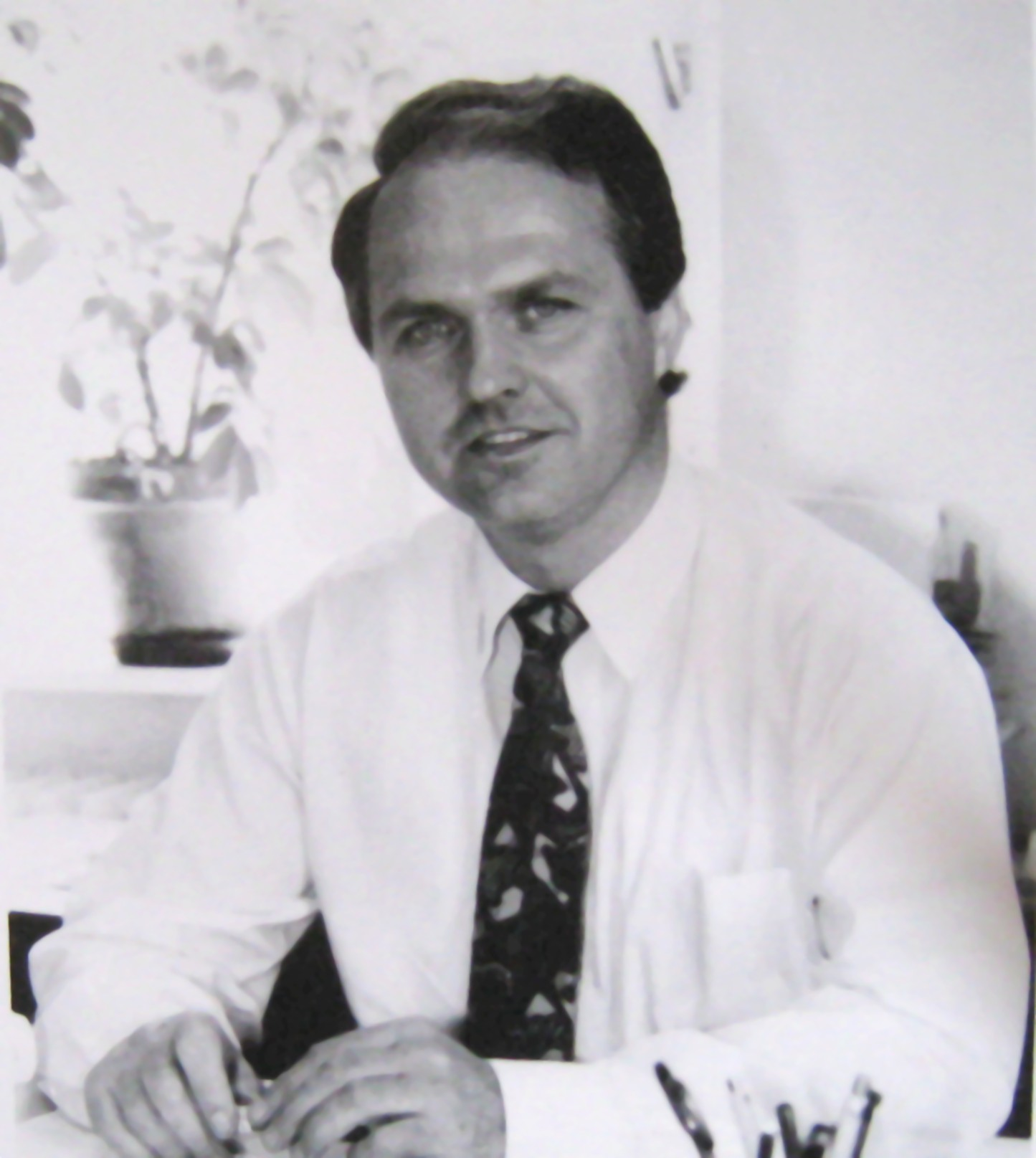 Michael Lersow